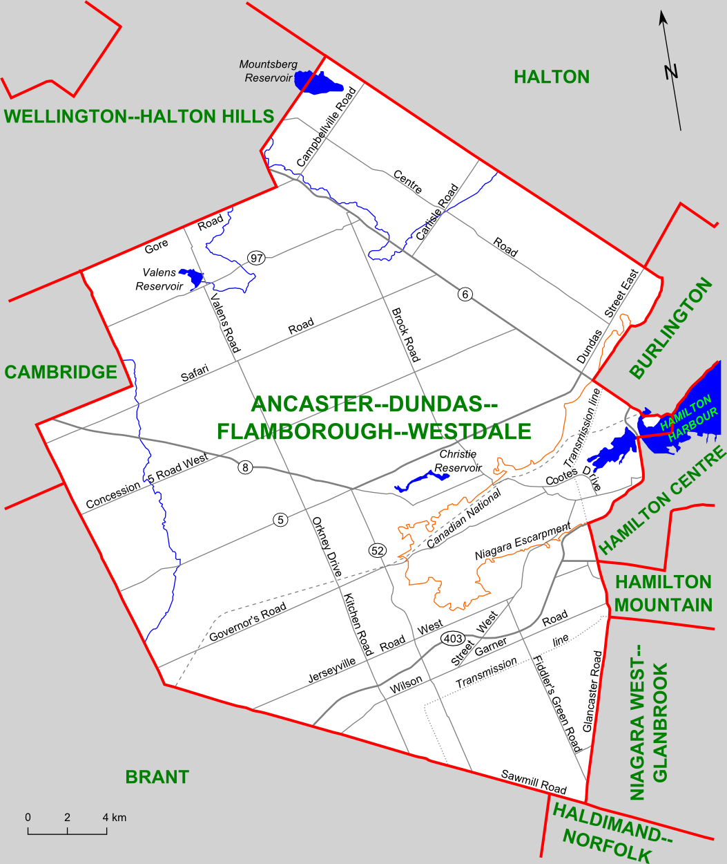 Map of the Ontario federal and provincial riding of Ancaster--Dundas--Flamborough--Westdale (boundaries established in 2003, adopted federally in 2004 and provincially in 2007)